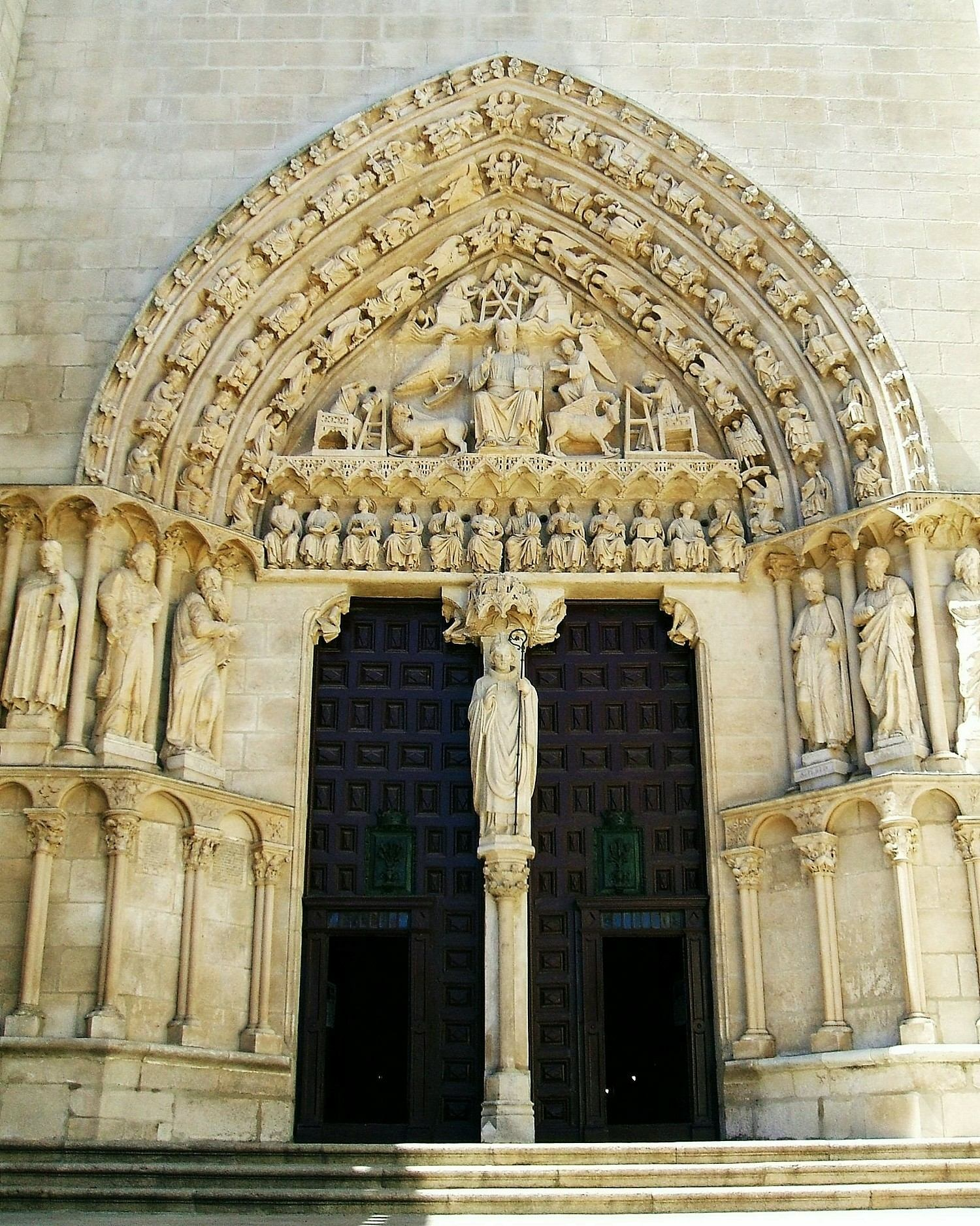 Puerta del Sarmental, Catedral de Burgos, España